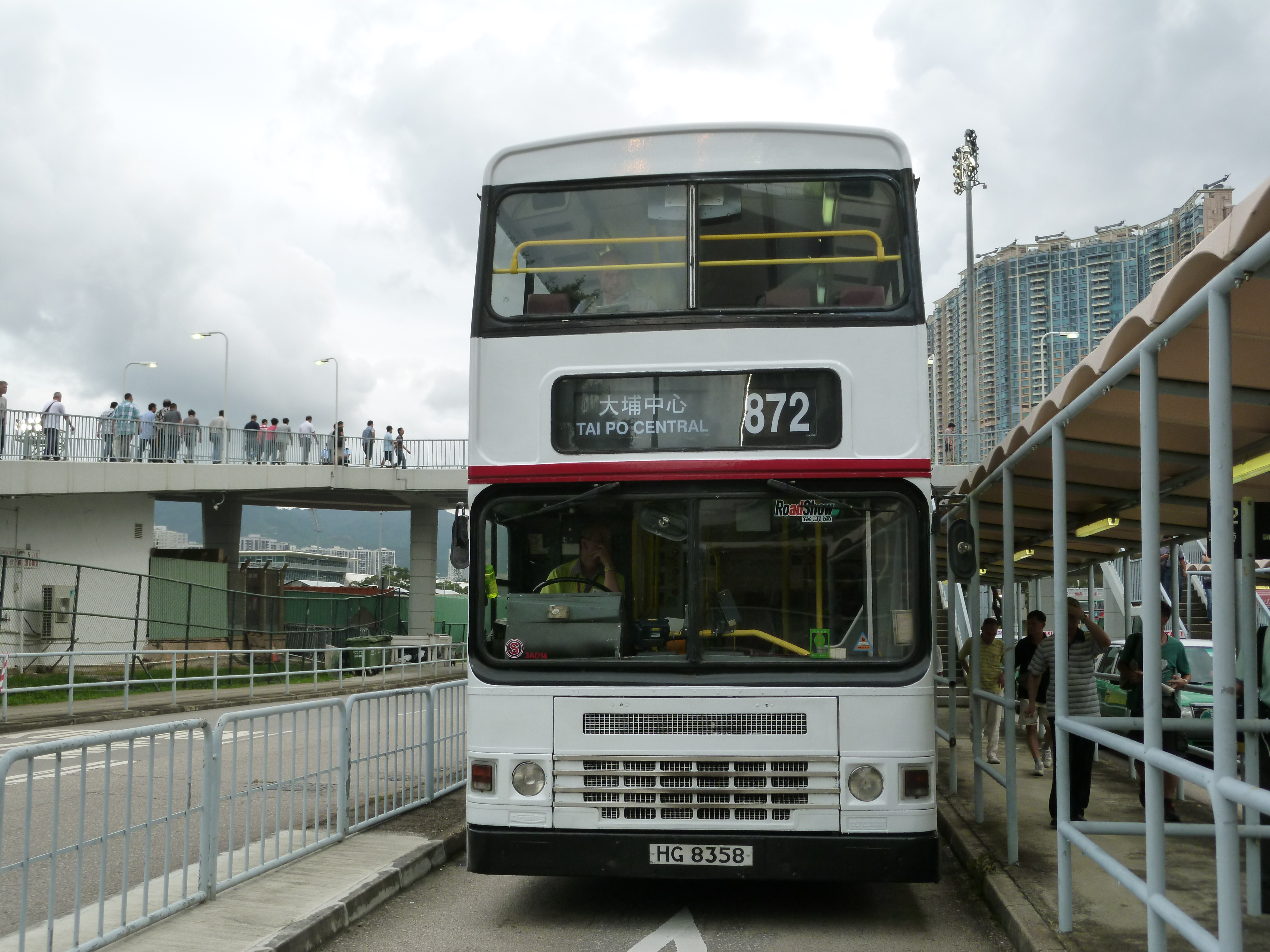 KMB Route 872中文（香港）: 九龍巴士872線 (沙田馬場巴士總站)